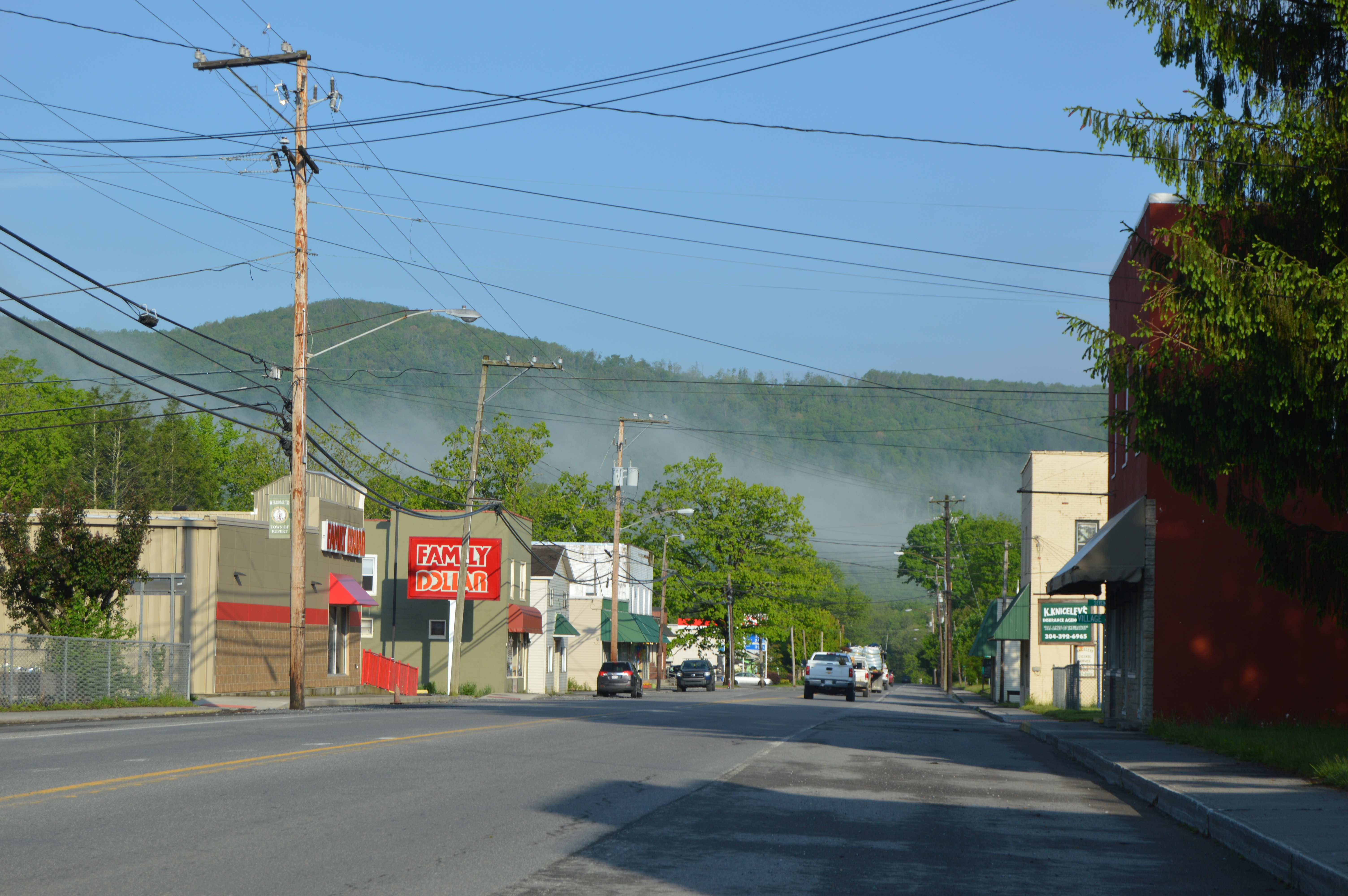 Buildings on U.S. Route 60 in central Rupert, West Virginia, United States, looking west toward the Seventh Street intersection.